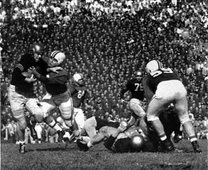 A Maryland defender tackles a Navy ball-carrier in the 1952 Maryland–Navy game at Byrd Stadium in College Park, Maryland.